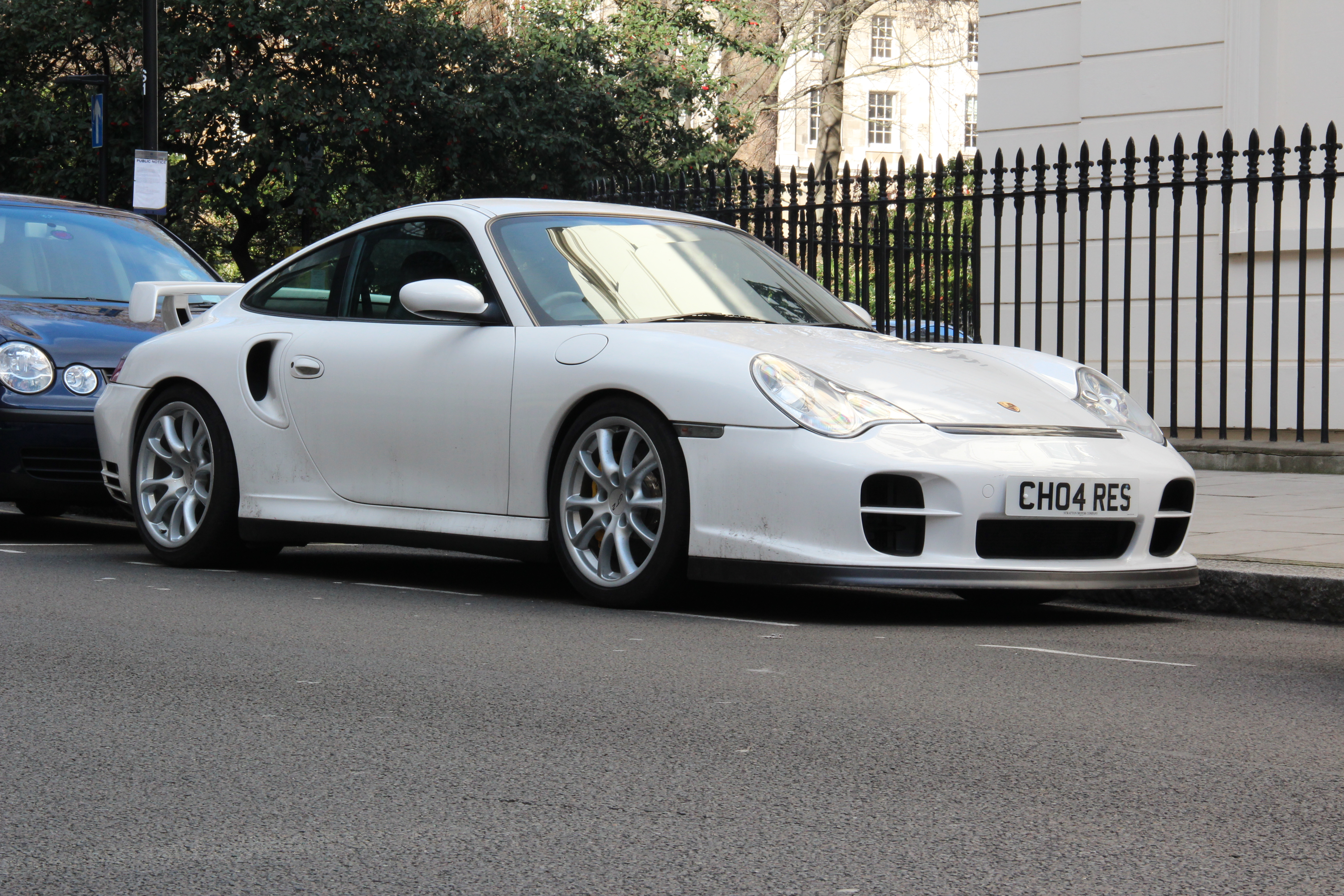 porsche GT2 white